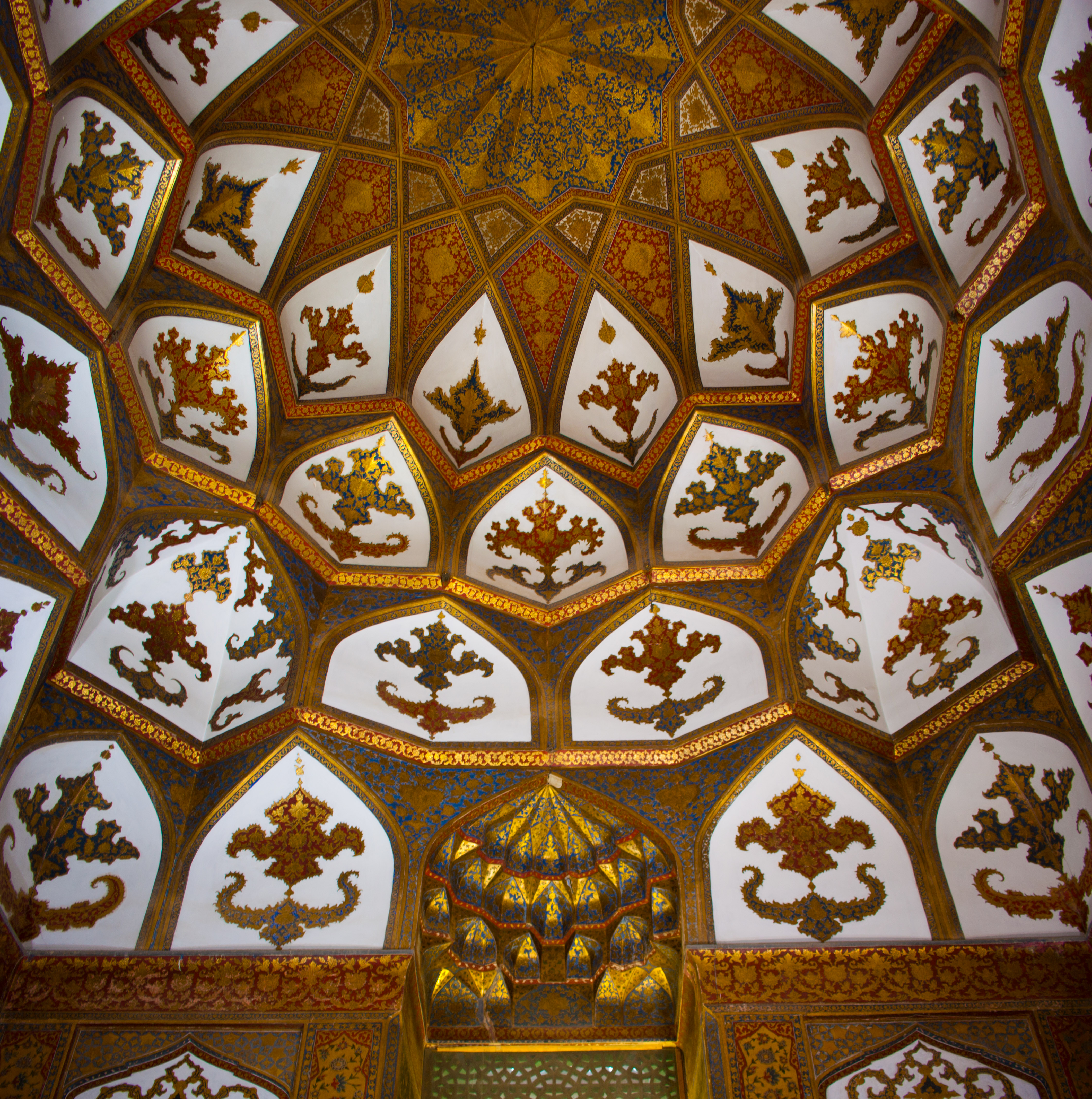 Emamzadeh Esmaeil and Isaiah mausoleum interior